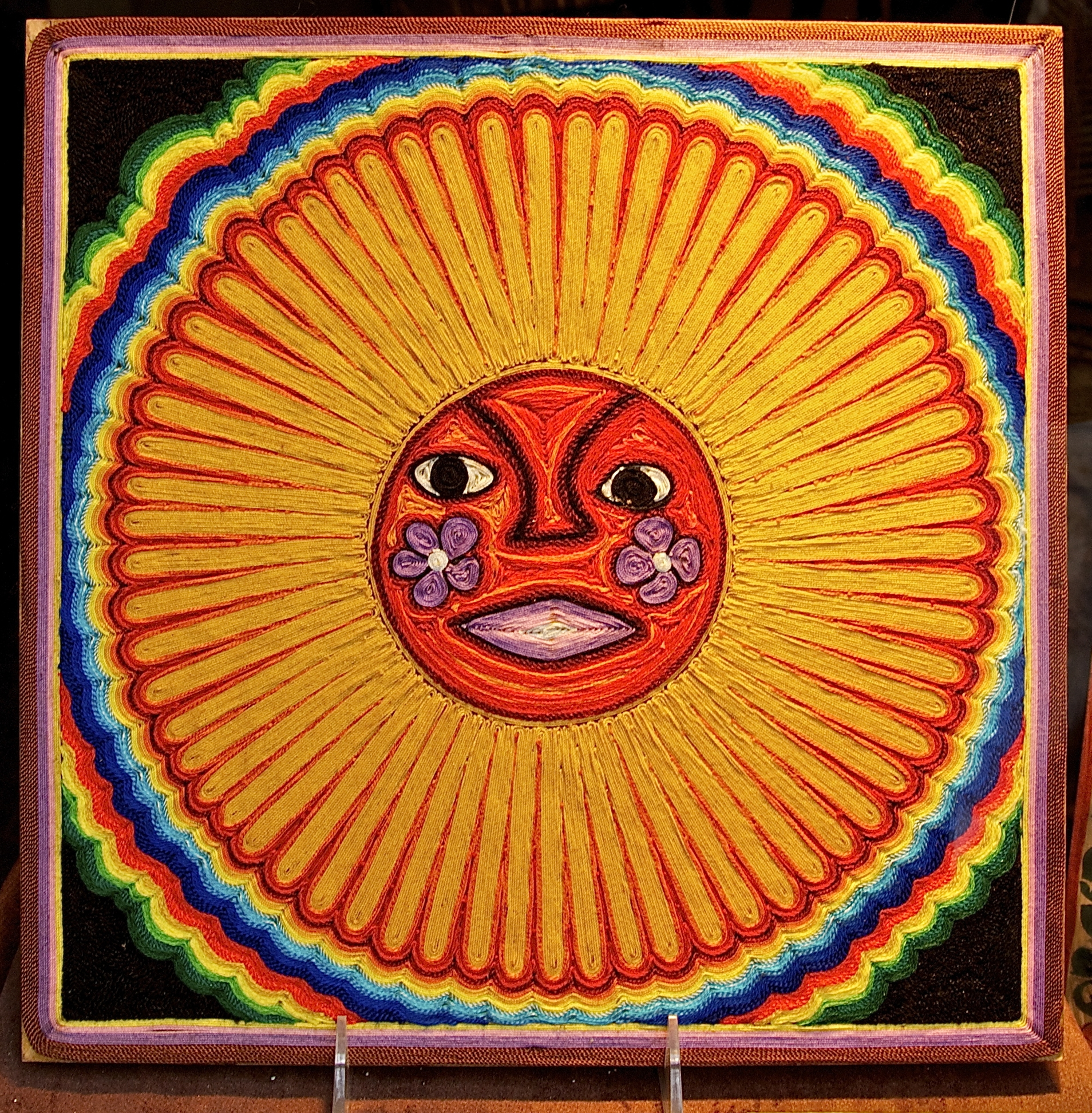 Huichol string art. Huichols are a mexican native people.